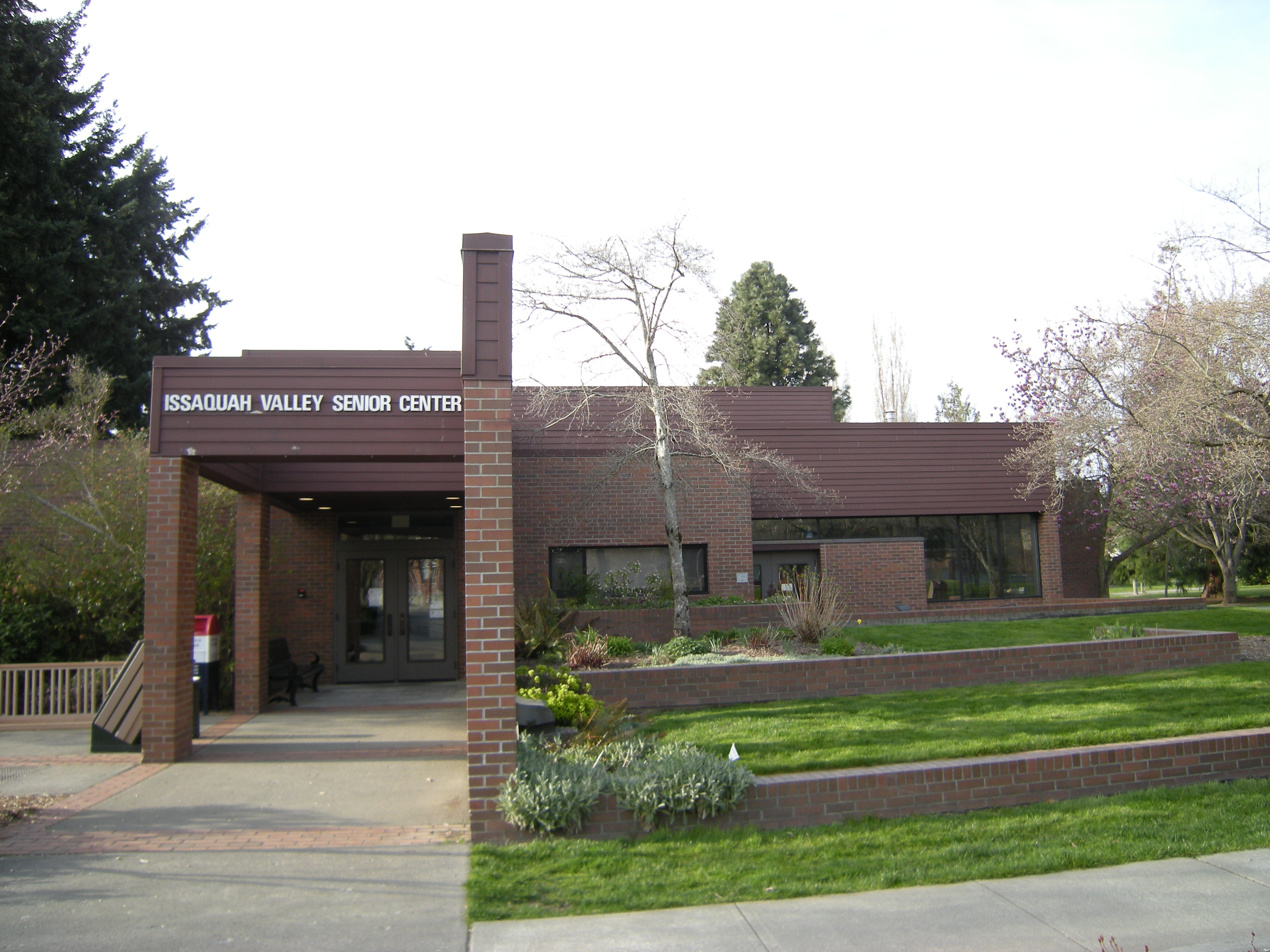 Issaquah Senior Center, Issaquah, Washington, U.S.